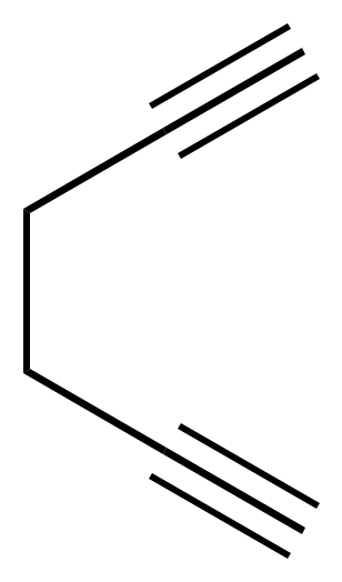 Skeletal structure of hexa-1,5-diyne